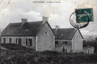 Ecole de saint adrien 22